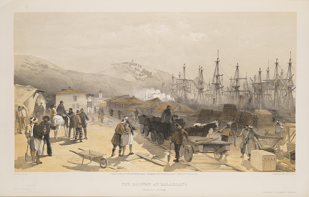 Title: The Railway at Balaklava Looking South. Creator: Simpson, William, 1823-1899 (delineator) Contributors: Day & Son (lithographers); P. & D. Colnaghi & Co. (publisher) Date: May 24, 1855 Part of: The seat of war in the East ... 1st-2d series Series: Simpson's Sketches at the Seat of War in the East: First Series Place: Balaklava, Sevastopol, Crimea Physical Description: 1 print: lithograph, color, part of 1 volume (117 prints); 28 x 49 cm on 39 x 57 cm File: folio_3_dk214_s56_1_119_opt.jpg Rights: Please cite DeGolyer Library, Southern Methodist University when using this file. A high-resolution version of this file may be obtained for a fee. For details see the web page. For other information, . For more information and to view the image in high resolution, View the